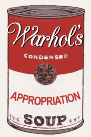 pop art parody (this jpg from original vector graphics)